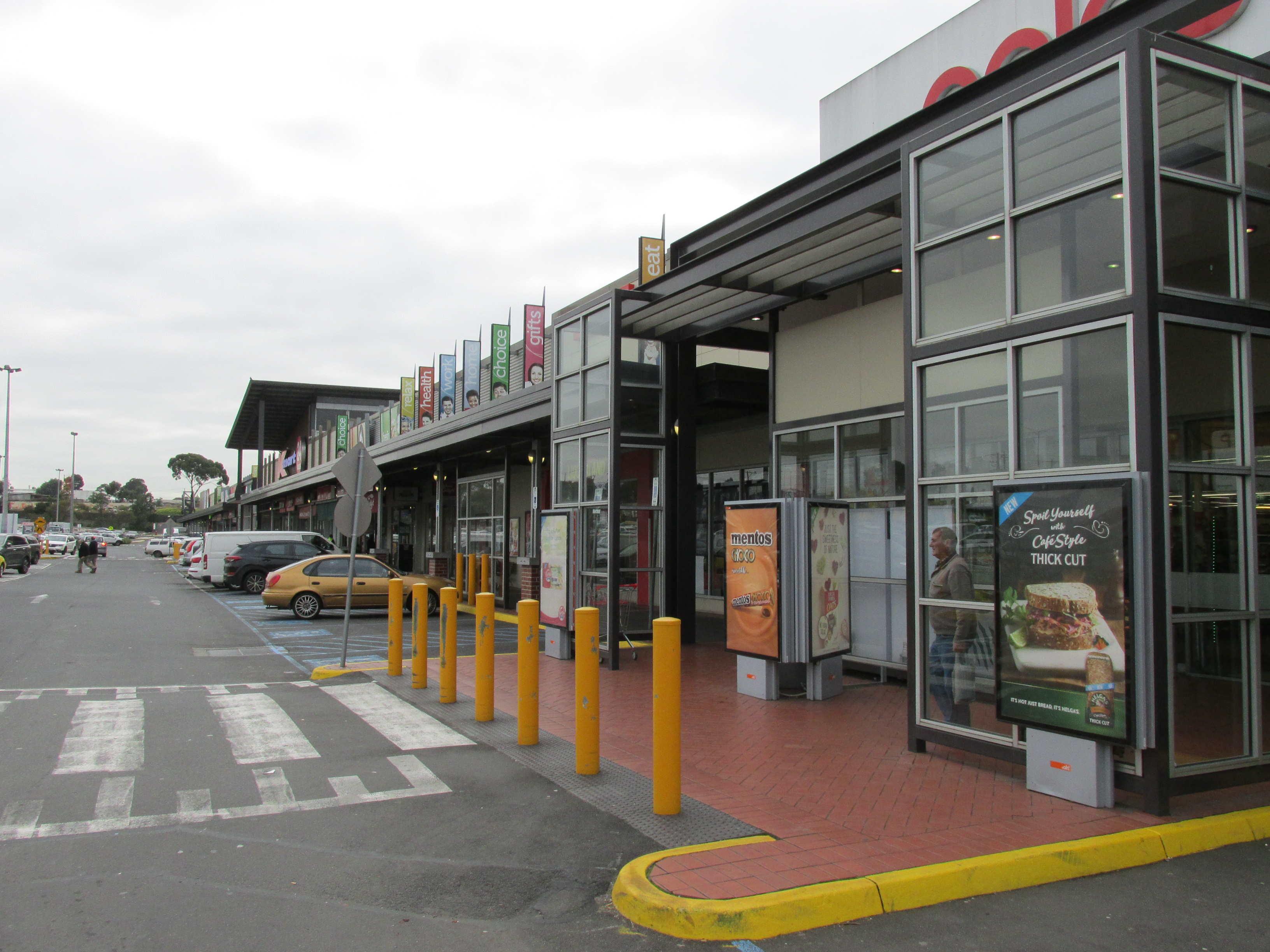 Shops at Campbellfield, Victoria.